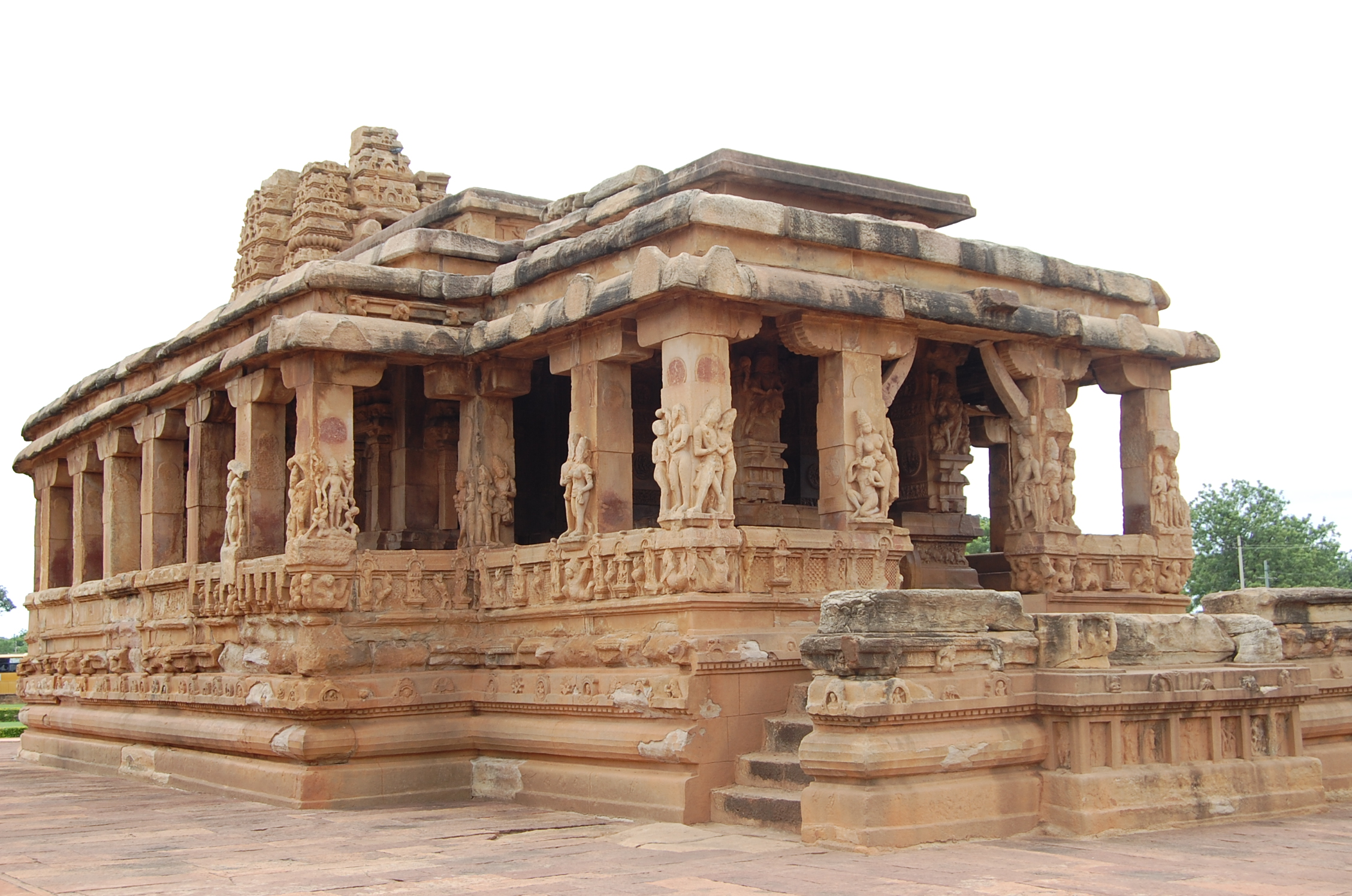 Aihole Temple